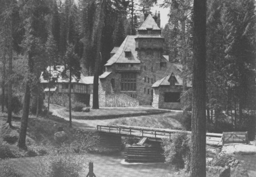 Photograph taken from a 1906 issue of American Homes and Gardens in an article titled "'Myntoon', a Mediaeval Castle in Shasta, California". The article describes Wyntoon, a mansion built in 1902 by Bernard Maybeck for Phoebe Hearst.